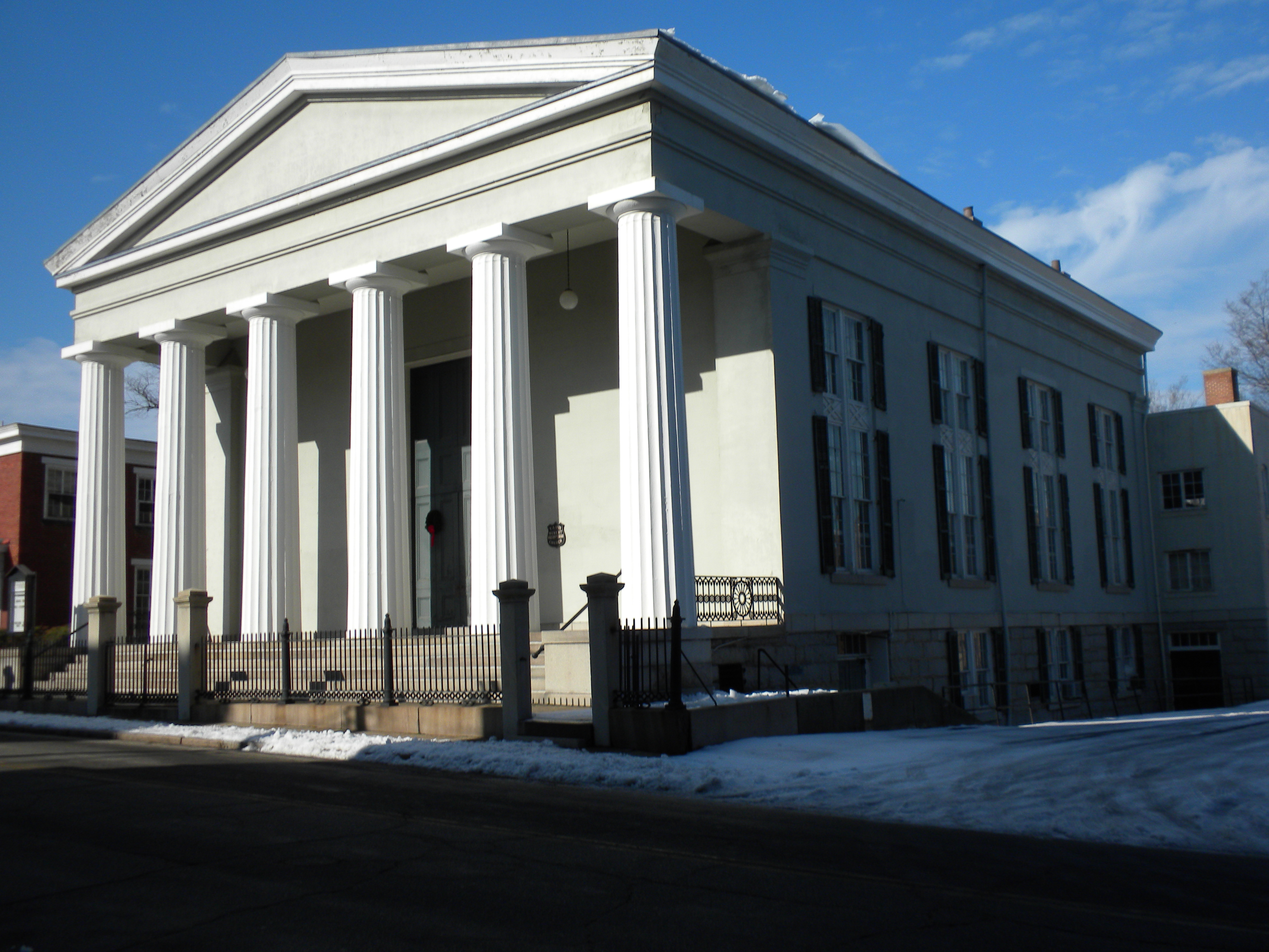 Tabb Street Presbyterian Church in Petersburg, VA. On NRHP. I donate this photo to the public domain.